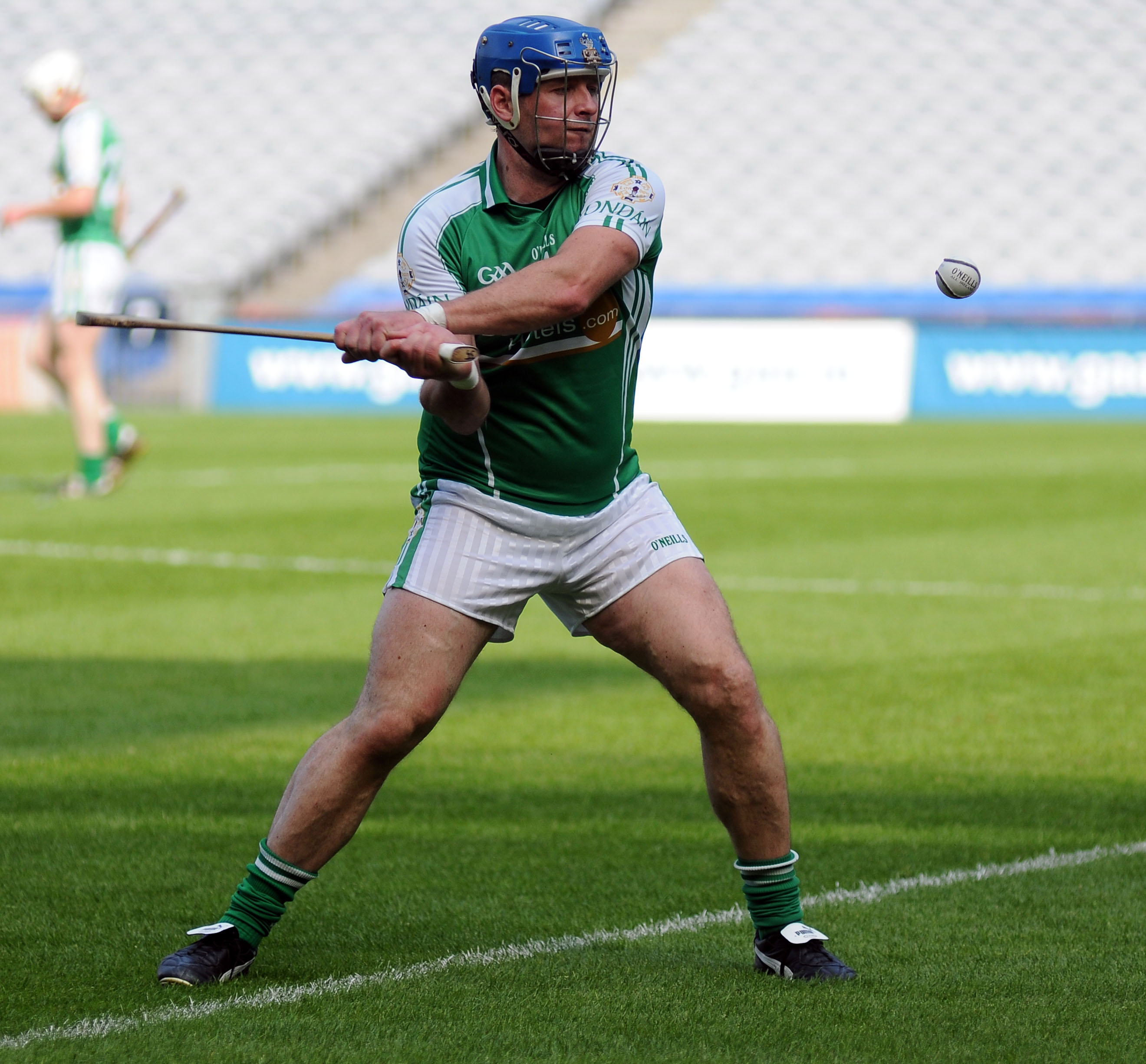 Martin Finn in action for London against Louth in the 2011 Nicky Rackard Cup Final at Croke Park, Dublin